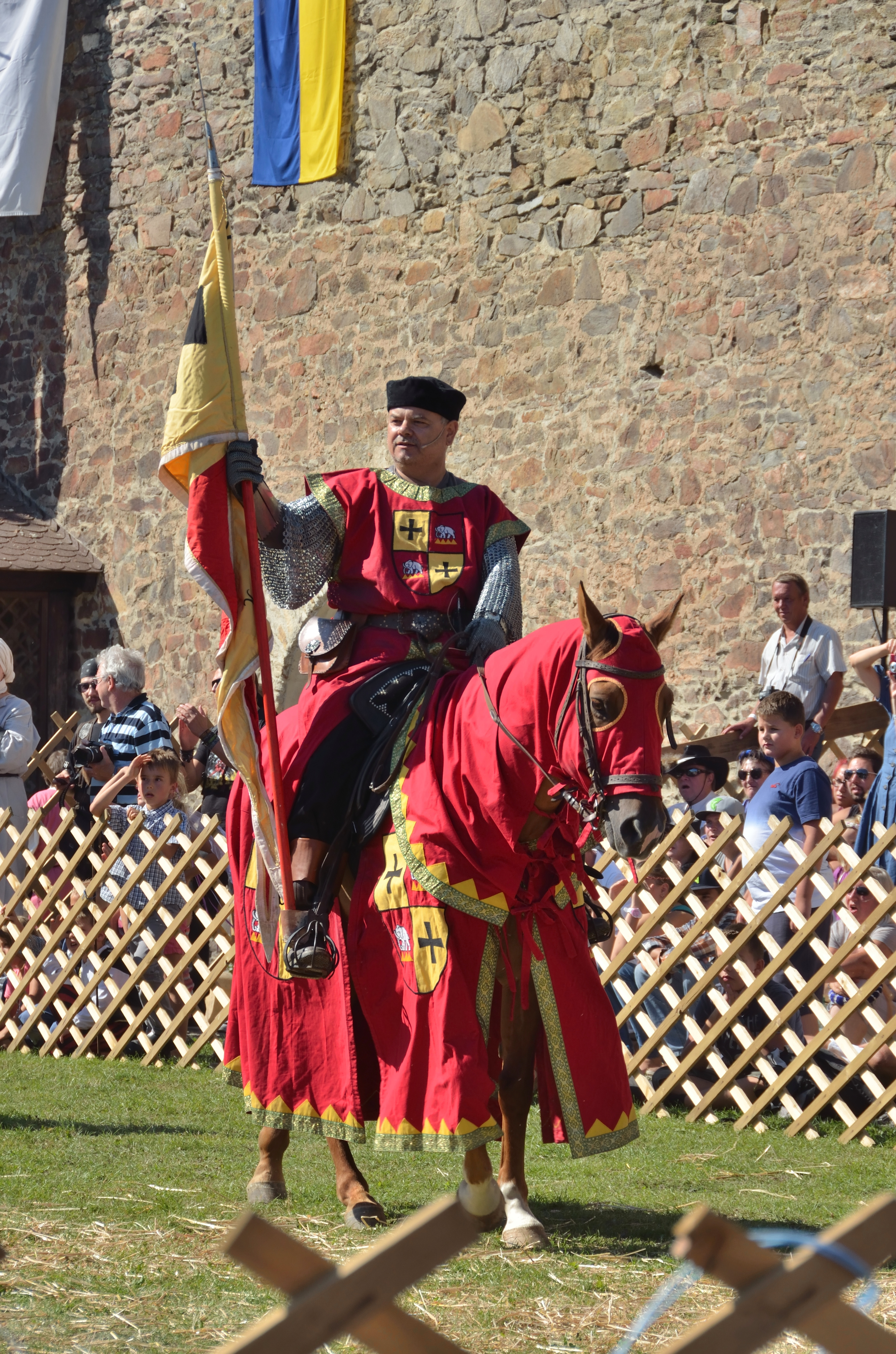 Medivial festival at Eggenburg, Lower Austria, 2013, September 7th-8th. Tournament at the Kanzlerwiese.